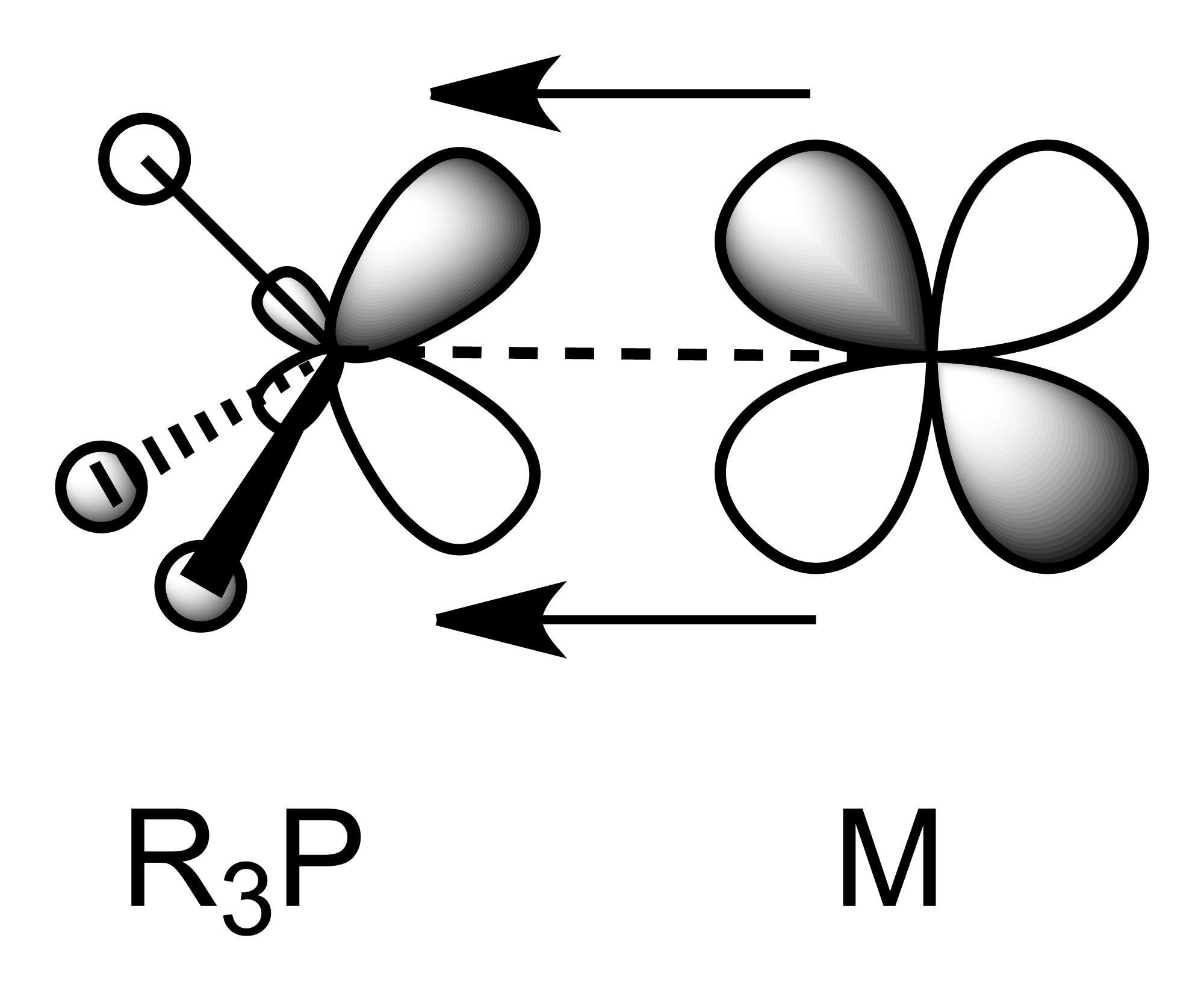 Molecular orbital diagram of the pi backbonding in metal-phosphine complexes, R3P–M. Based on diagrams in A. G. Orpen, N. G. Connelly, Organometallics (1990) 9, 1206–1210. Image generated in ChemBioDraw Ultra 12.0.